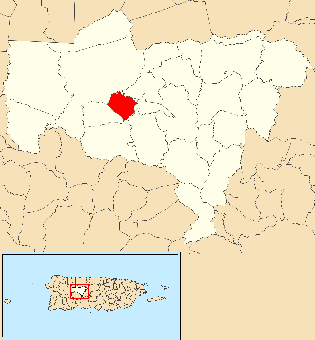 Salto Arriba, Utuado, Puerto Rico locator map